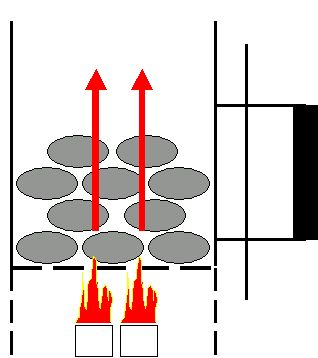 drawing function chimney to fire charcoal for bbq